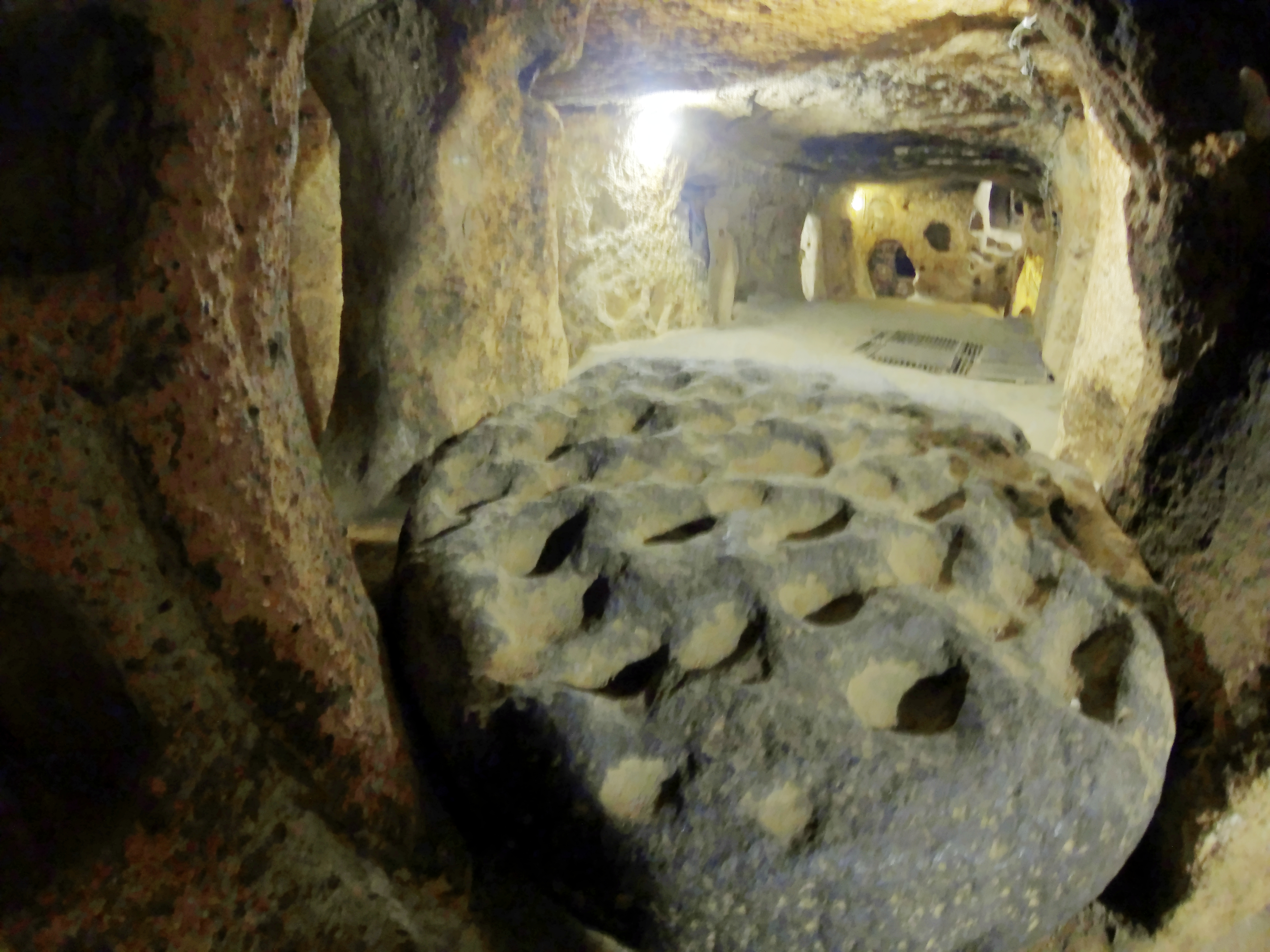 Kaymakli Underground City in Cappadocia, Turkey. Christians fled the enemies and hid in this underground cities. A remarkable block of andesite with relief textures. Recently it was shown that this stone was used for cold-forming copper. The stone was hewn from an andesite layer within the complex. In order for it to be used in metallurgy, fifty-seven holes were carved into the stone. The technique was to put copper into each of the holes (about 10 centimetres (3.9 in) in diameter) and then to hammer the ore into place. The copper was probably mined between Aksaray and Nevsehir. This mine was also used by Asilikhoyuk, the oldest settlement within the Cappadocia Region.